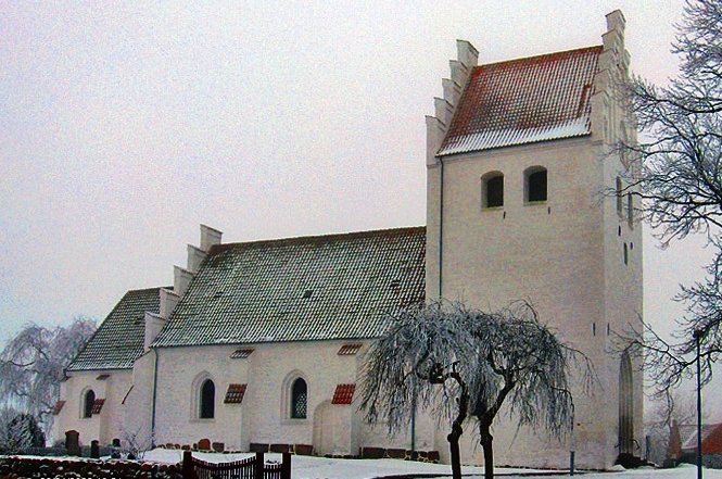 Errindlev Church, Lolland, Denmark. Derivative file cropped to remove caption.